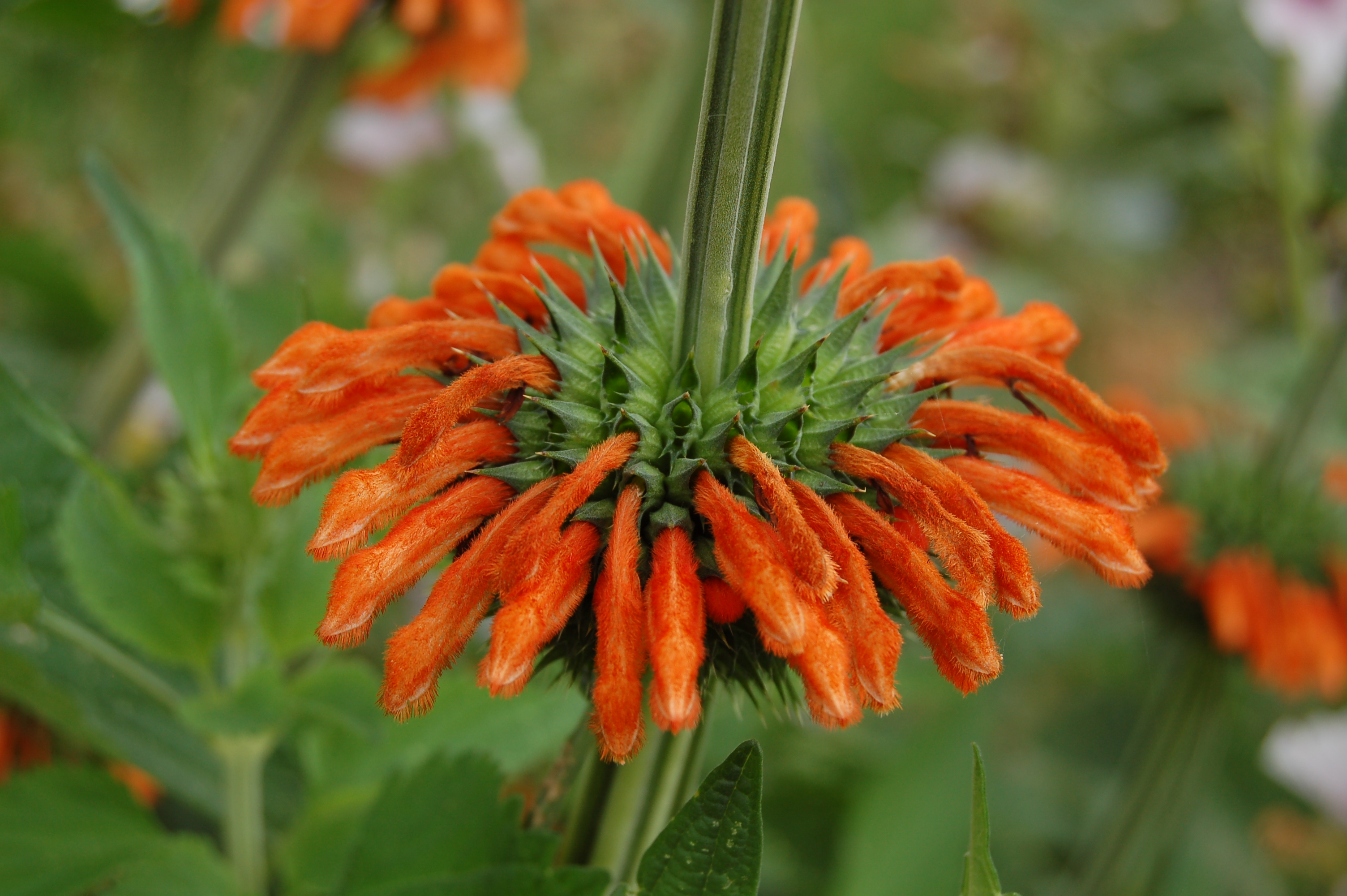 Leonotis nepetifolia grows very well within the U.K as an annual reaching over 2m